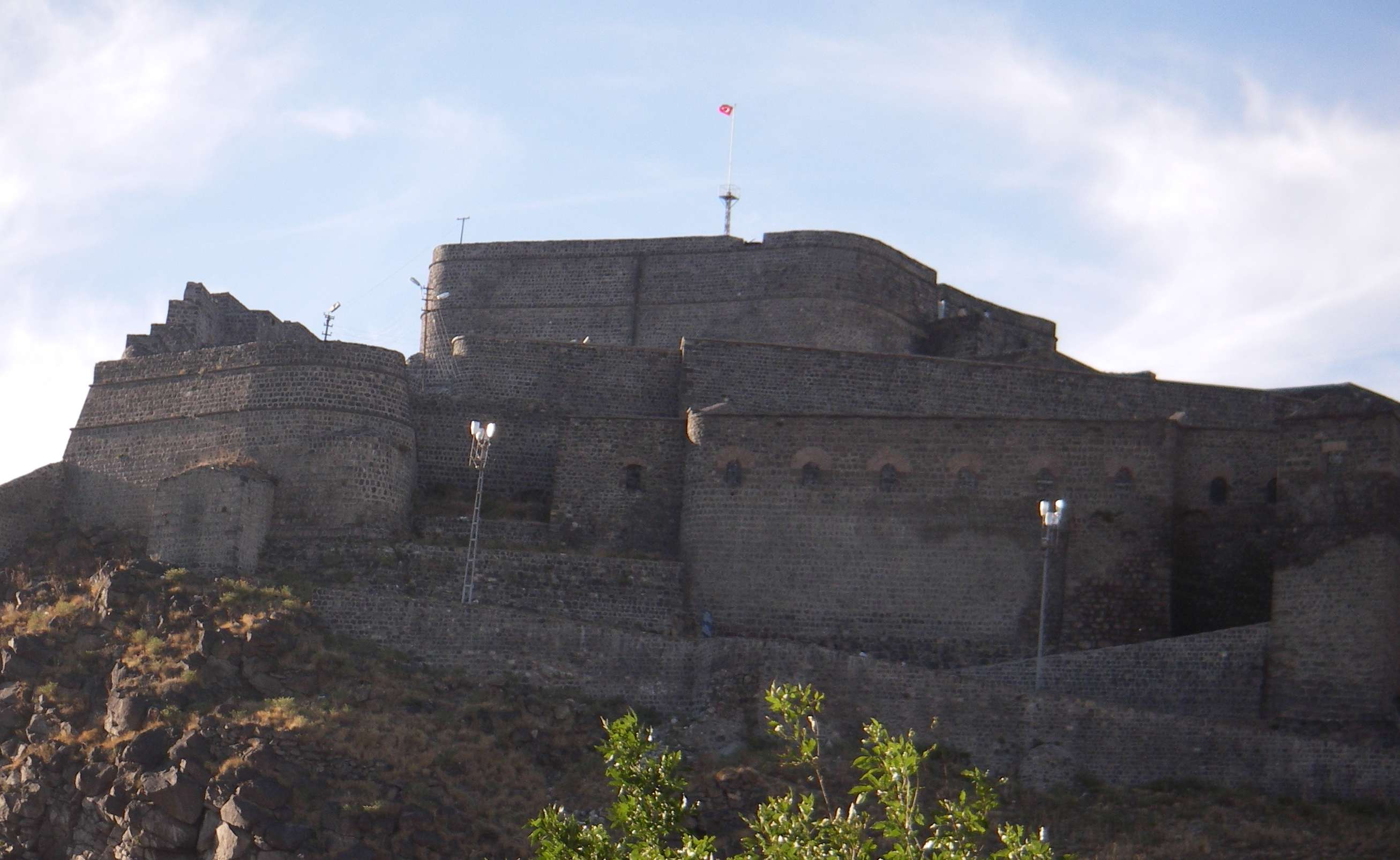 Castle of Kars, Turkey.